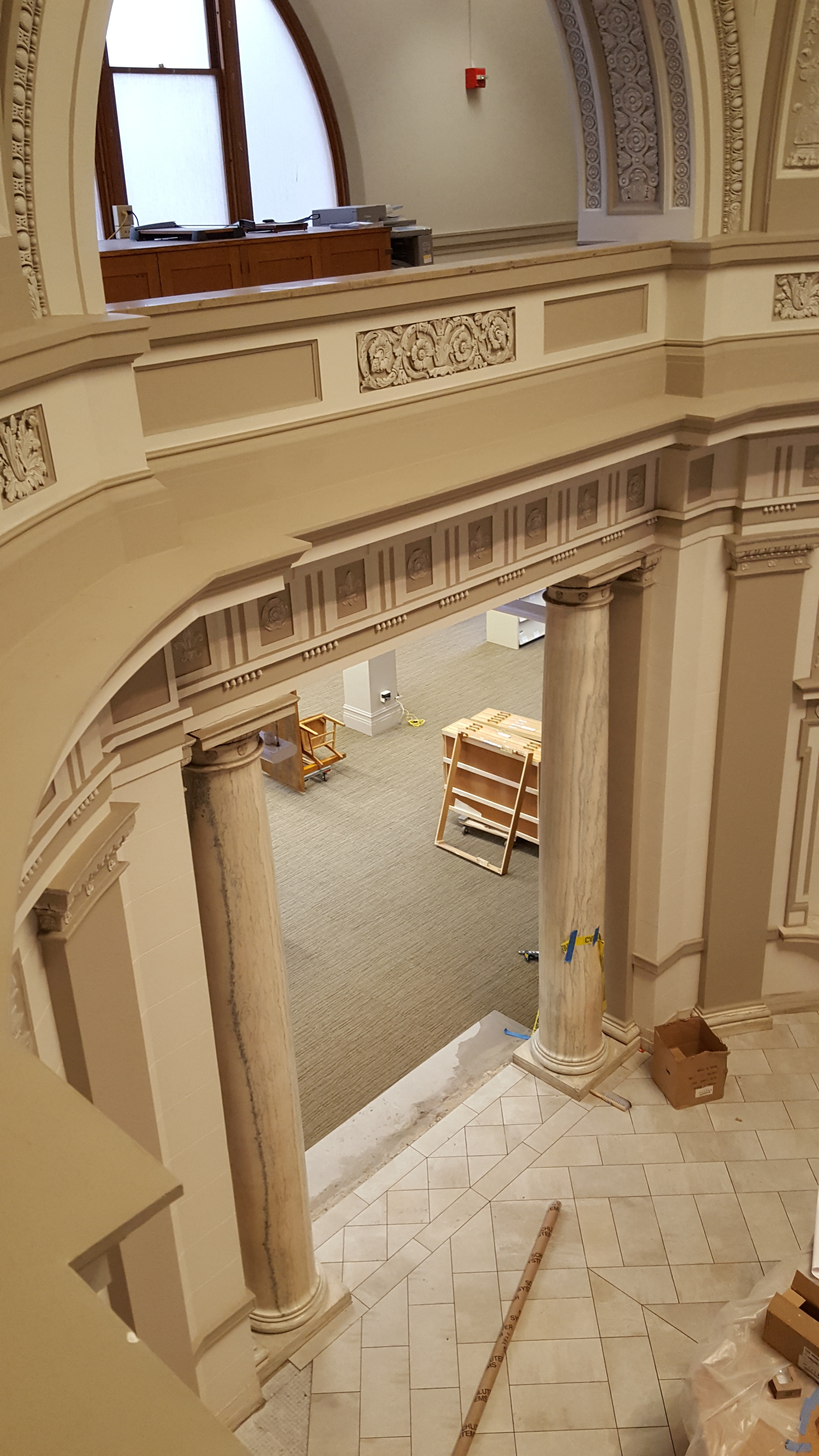 Flooring remodel including new carpet & marble tiles, Jan. 2017